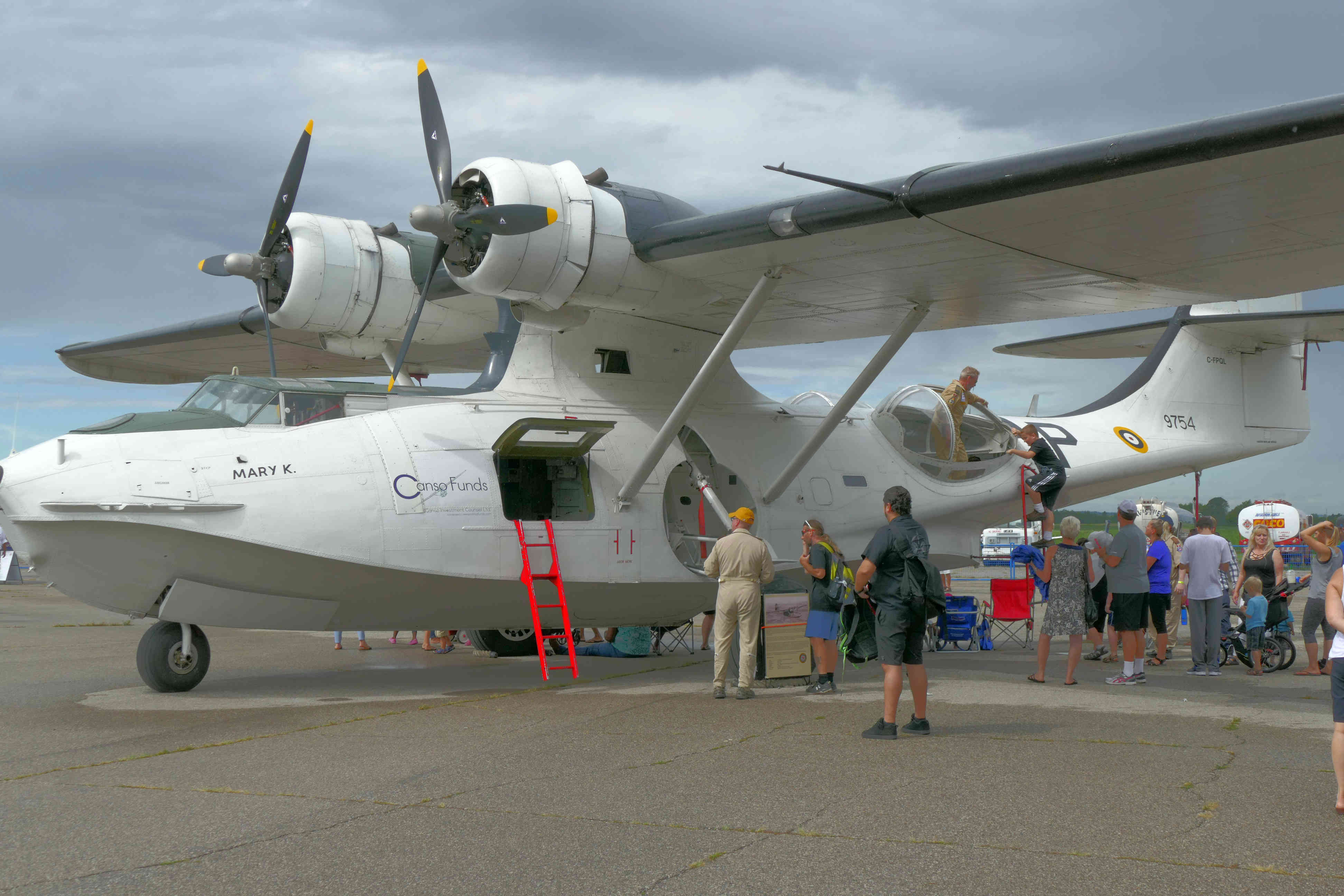 This is Canadian Consolidated Canso PBY-5A C-FPQL, serial number CV-417, manufactured at Consolidated Vultee in 1940. This aircraft is painted as Royal Canadian Air Force 9754, No. 162 Squadron, aircraft "P", in honour of F/L David Ernest Hornell V.C. This airworthy aircraft is owned by the Canadian Warplane Heritage Museum in Hamilton, Ontario. The photo shows members of CWH giving tours of the aircraft at the Brantford Community Airshow, Brantford, Ontario, Canada on August 29, 2018.